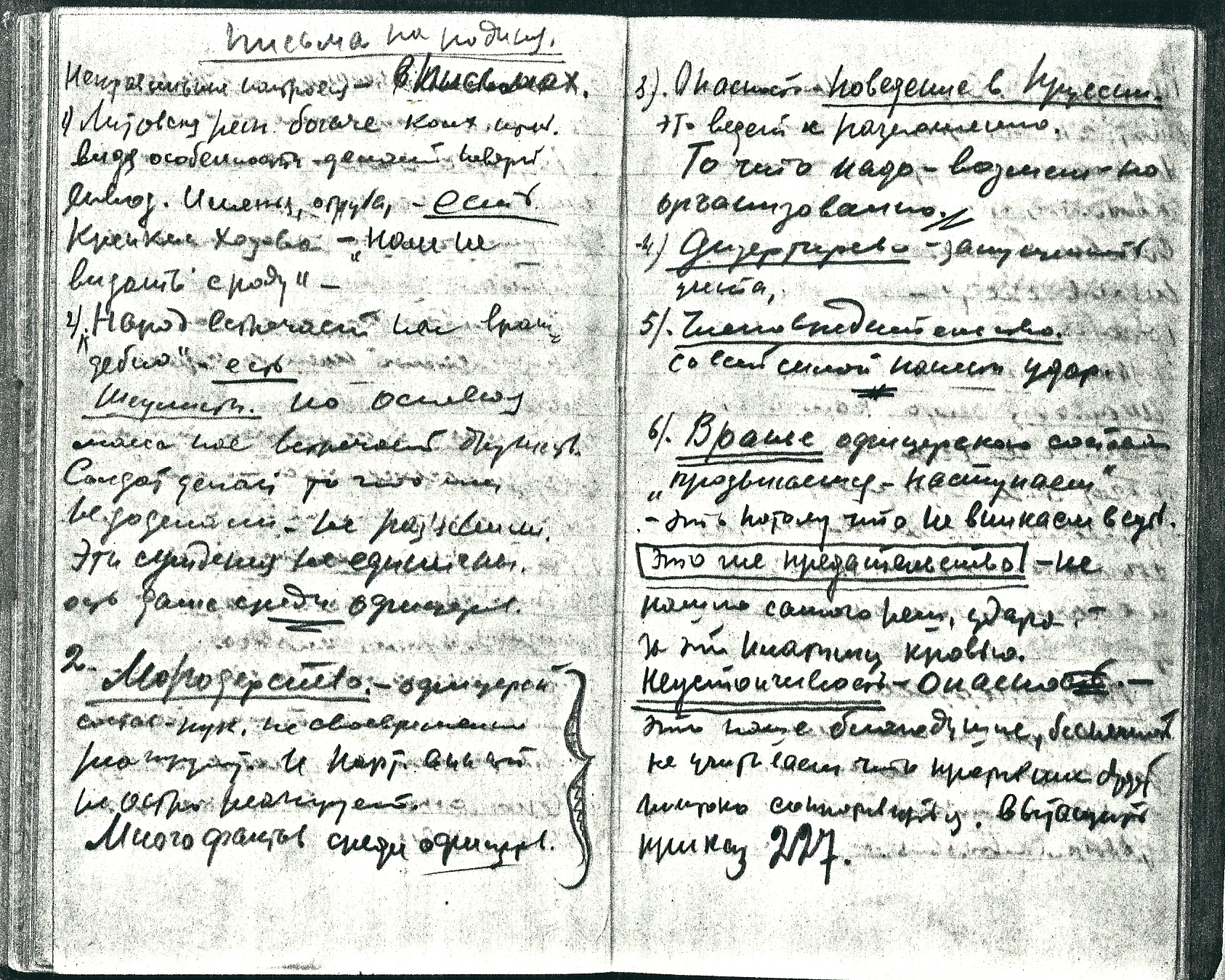 The notebook belonged to the chief of a political department of the 19th rifle division of the Soviet army, the lieutenant-colonel A. V. Pekarev. Lithuania, East Prussia, 1944. (pp. 78-79 of 144) The original is in the Archive of The Research Centre for East European Studies (Forschungsstelle Osteuropa) at the University of Bremen